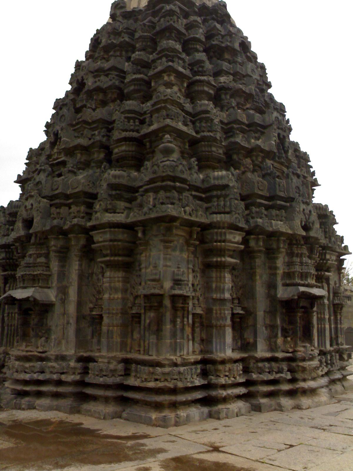 Annigeri Amriteshwara Temple Source and Author : Manjunath Doddamani, Gajendragad / Hubli, Karnataka(North), India